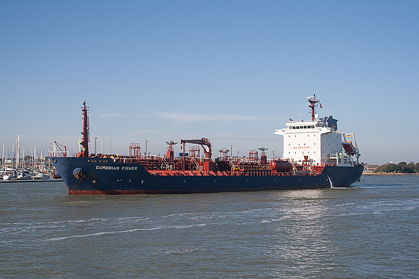 Cumbrian Fisher in Portsmouth Harbour IMO: 9298404 Information about Cumbrian Fisher may be found at IMO 9298404.A ship can change name and flag state through time, but the IMO number remains the same through the hull's entire lifetime. As a result, it can be useful to identify a ship by using the IMO number.